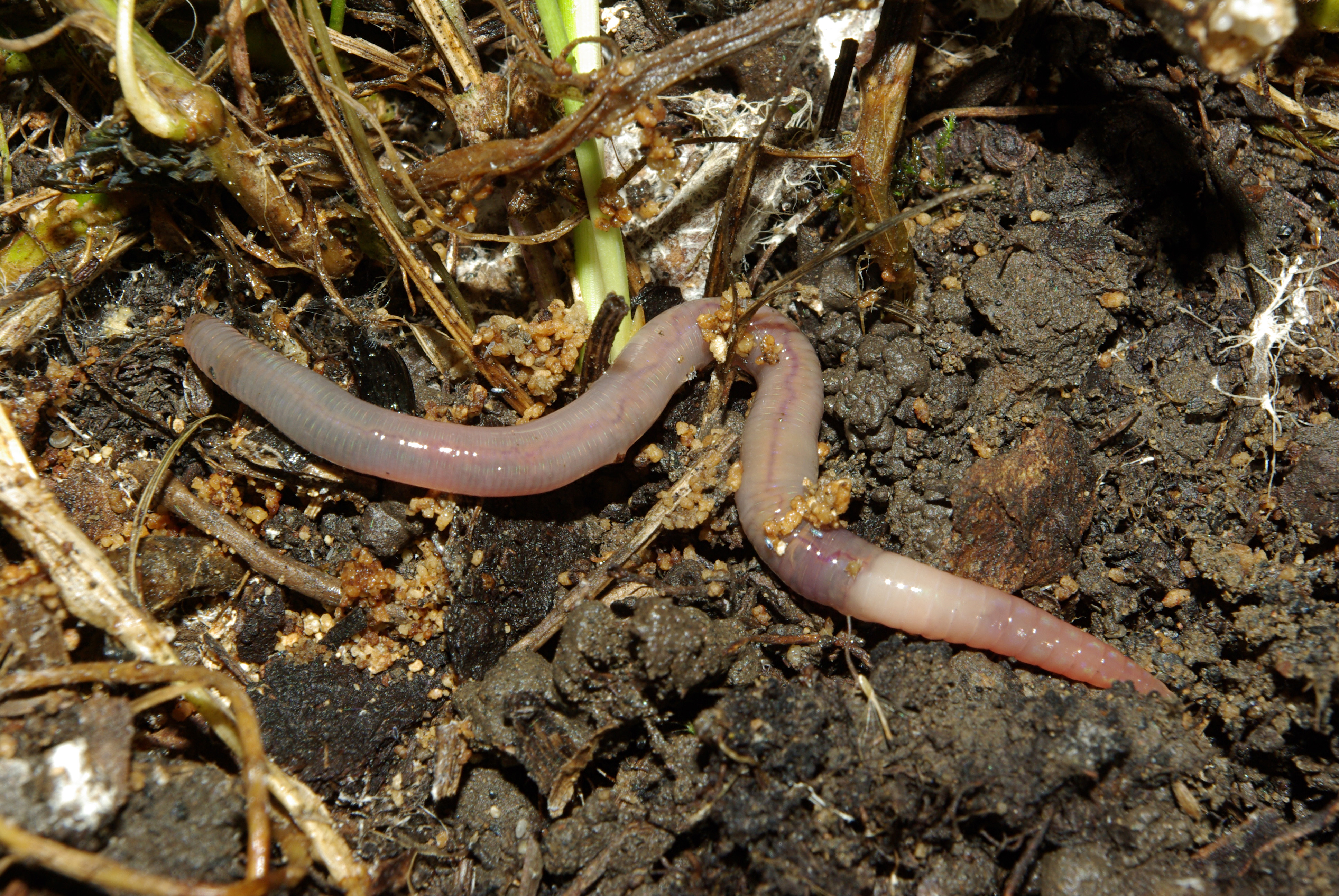 Worm (Lumbricus terrestris) near Villanófar, (León, Spain)